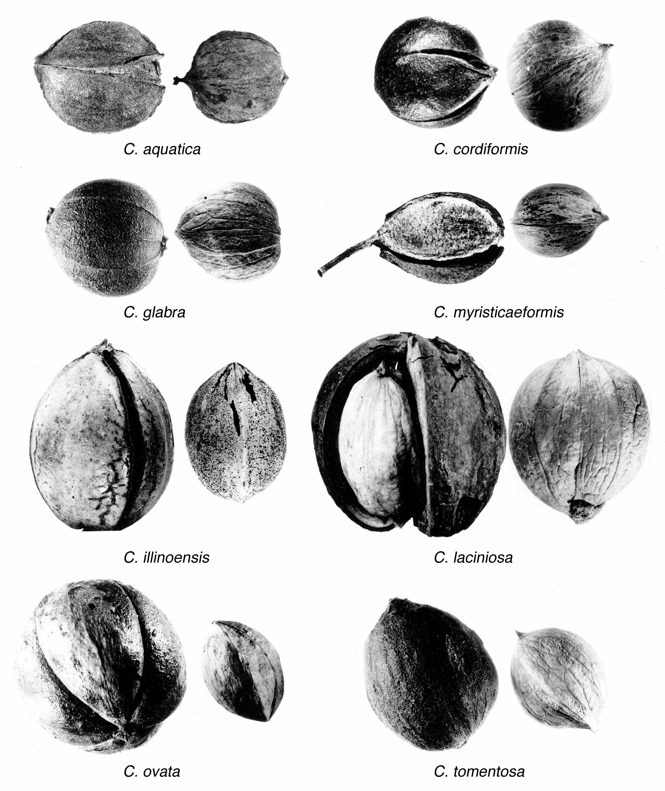 Nuts of the Carya genus.